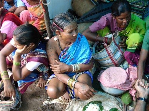 Weekly Village Market of Farasgaon (Bastar)